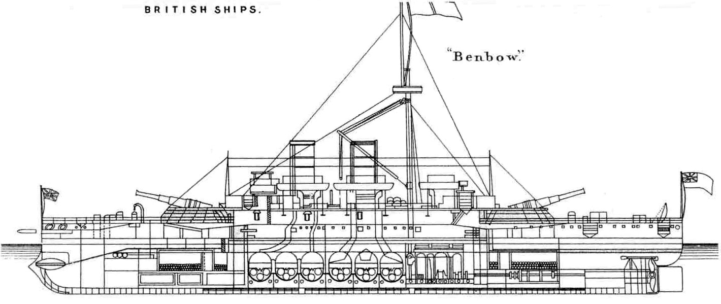 Diagram showing left sectional view through machinery spaces of British battleship HMS Benbow.